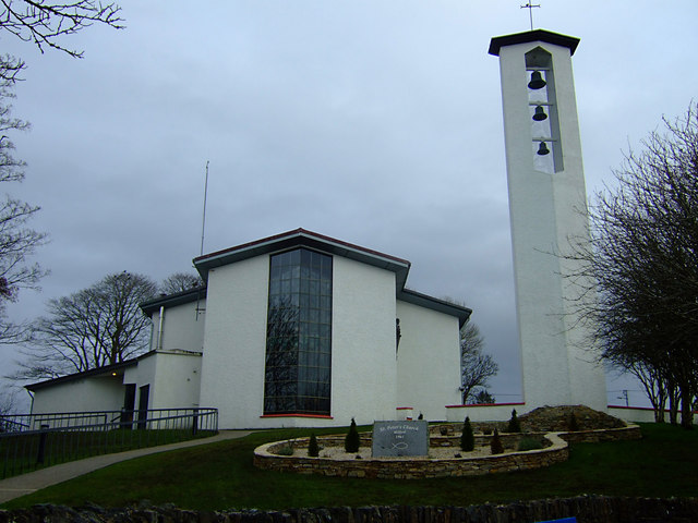 St Peters Church Milford RC Church on the outskirts of Milford which was opened in 1961